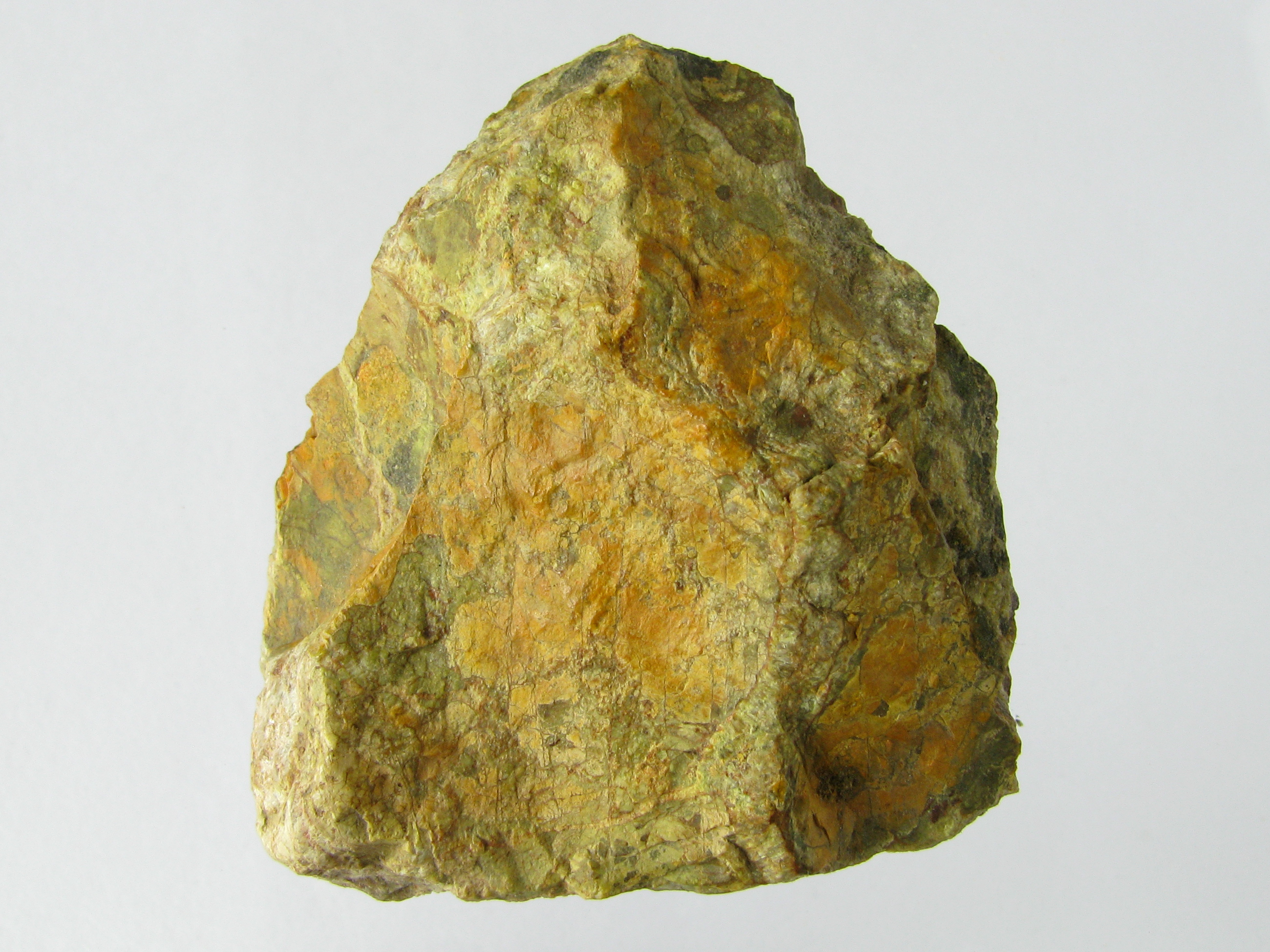 Gummite - Zálesí (Javorník) uranium mine, Czech Republic.